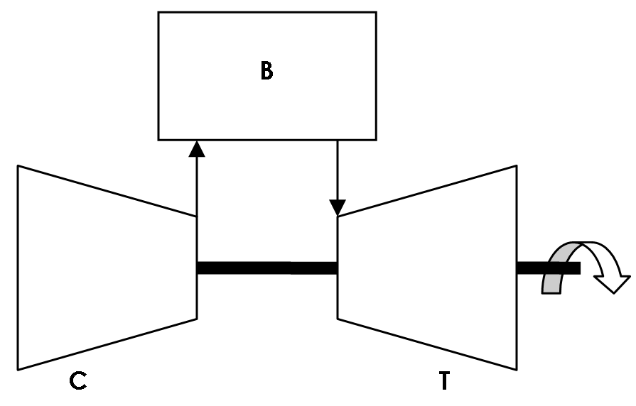 The strongly simplified functioning principle of a gas turbine. C is compressor, B burner, T turbine.